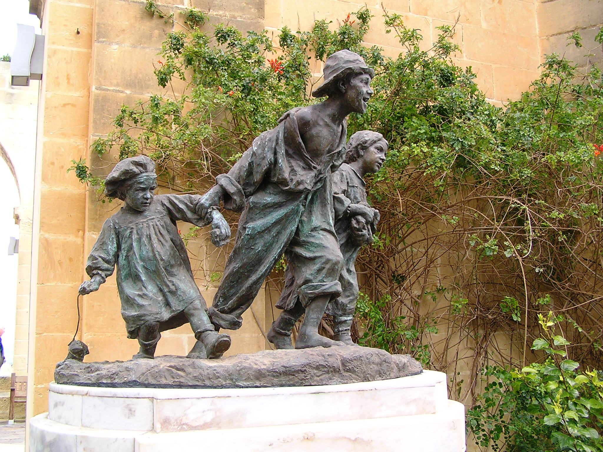 A very nice and interesting bronze group known as ‘Les Gavroches’ (the street urchins) made by an early 20th century Maltese sculptor. Depicting three children rushing forward. The idea behind this statue was the extreme hardship faced at the turn of the 20th century